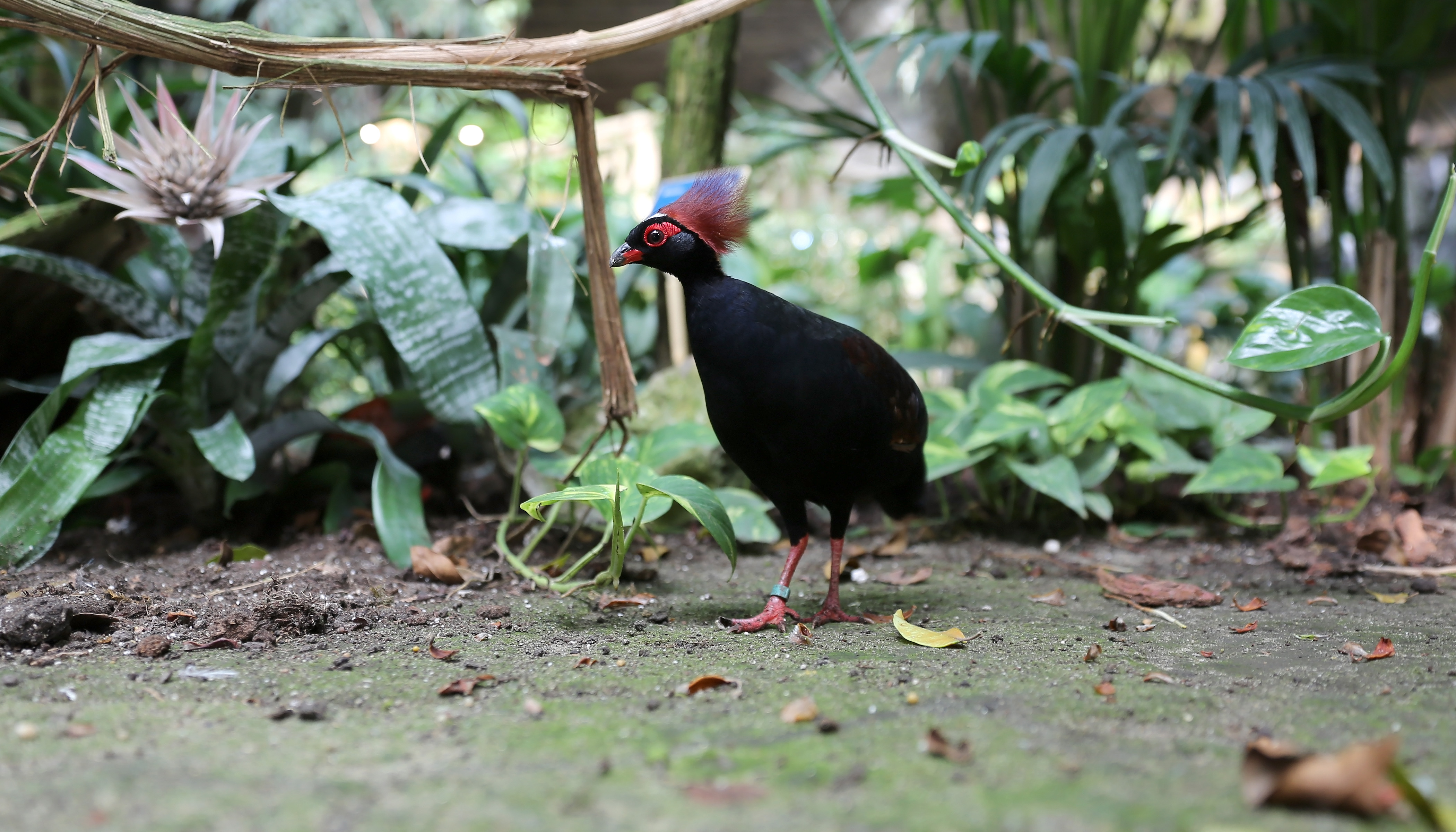 Crested partridge (Rollulus rouloul) at Blumengärten Hirschstetten in Vienna, Austria.